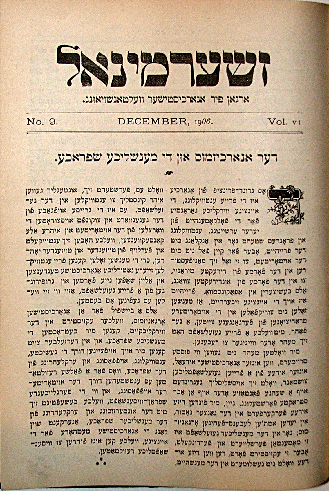 cover of the December 1906 edition of Zsherminal or Germinal, Jewish anarchist newspaper from London edited by Rudolf Rocker